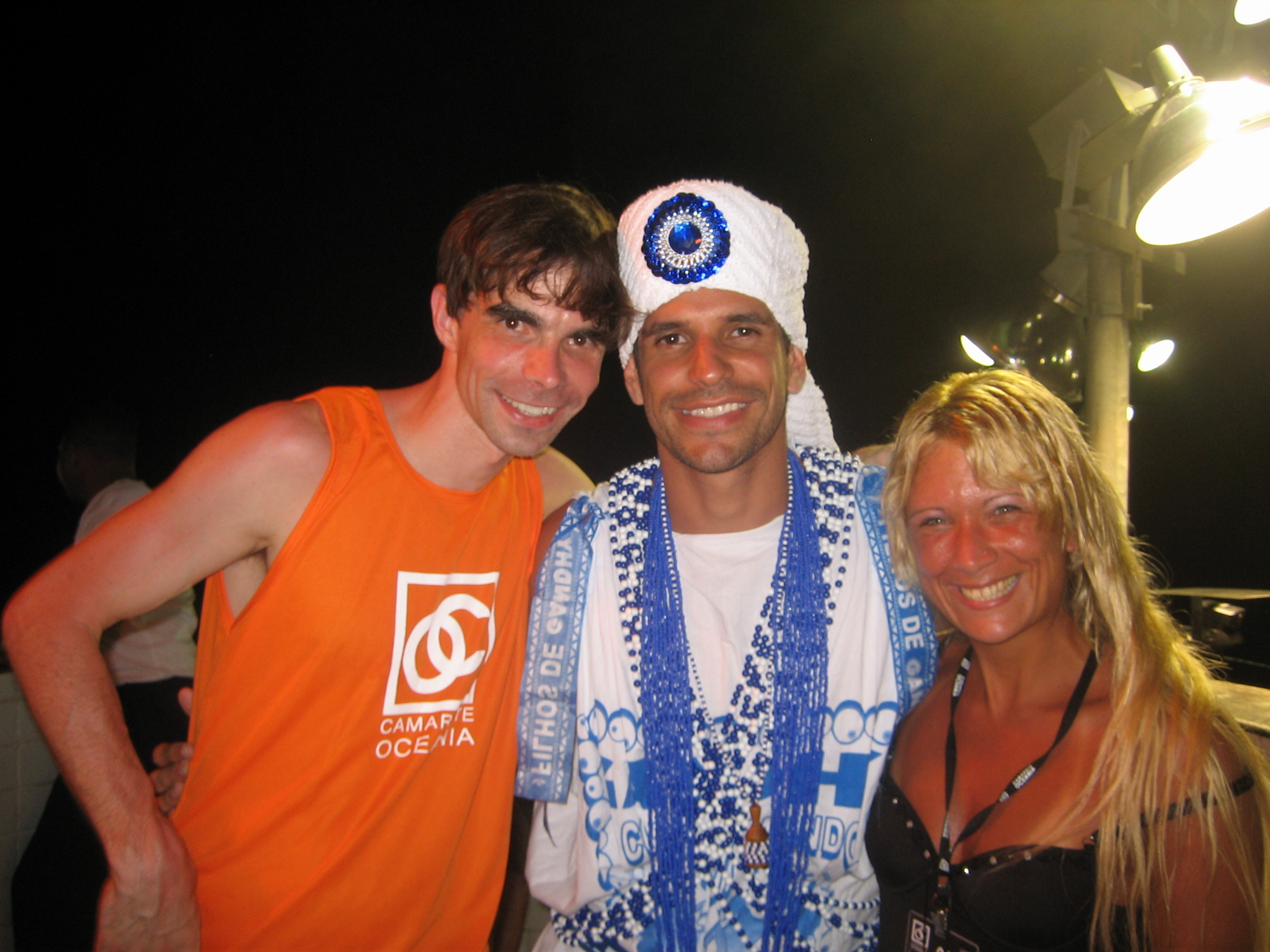 Justin, Dani and a guy from the Filhos de Gandhy [sic] Bloco. The most bizarre and (unintentionally) offensive tribute to the man...ever.